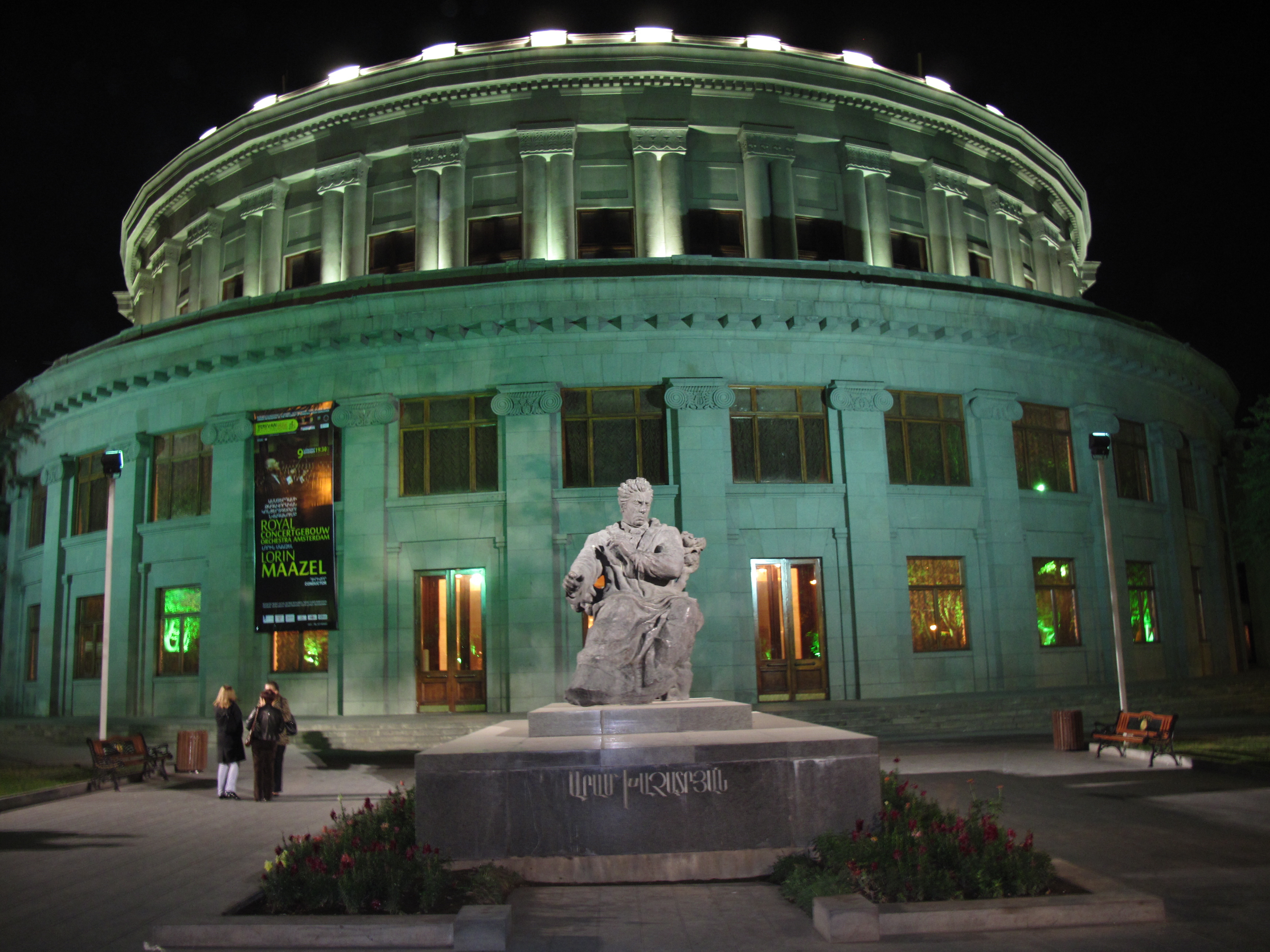 the opera house in Yerevan